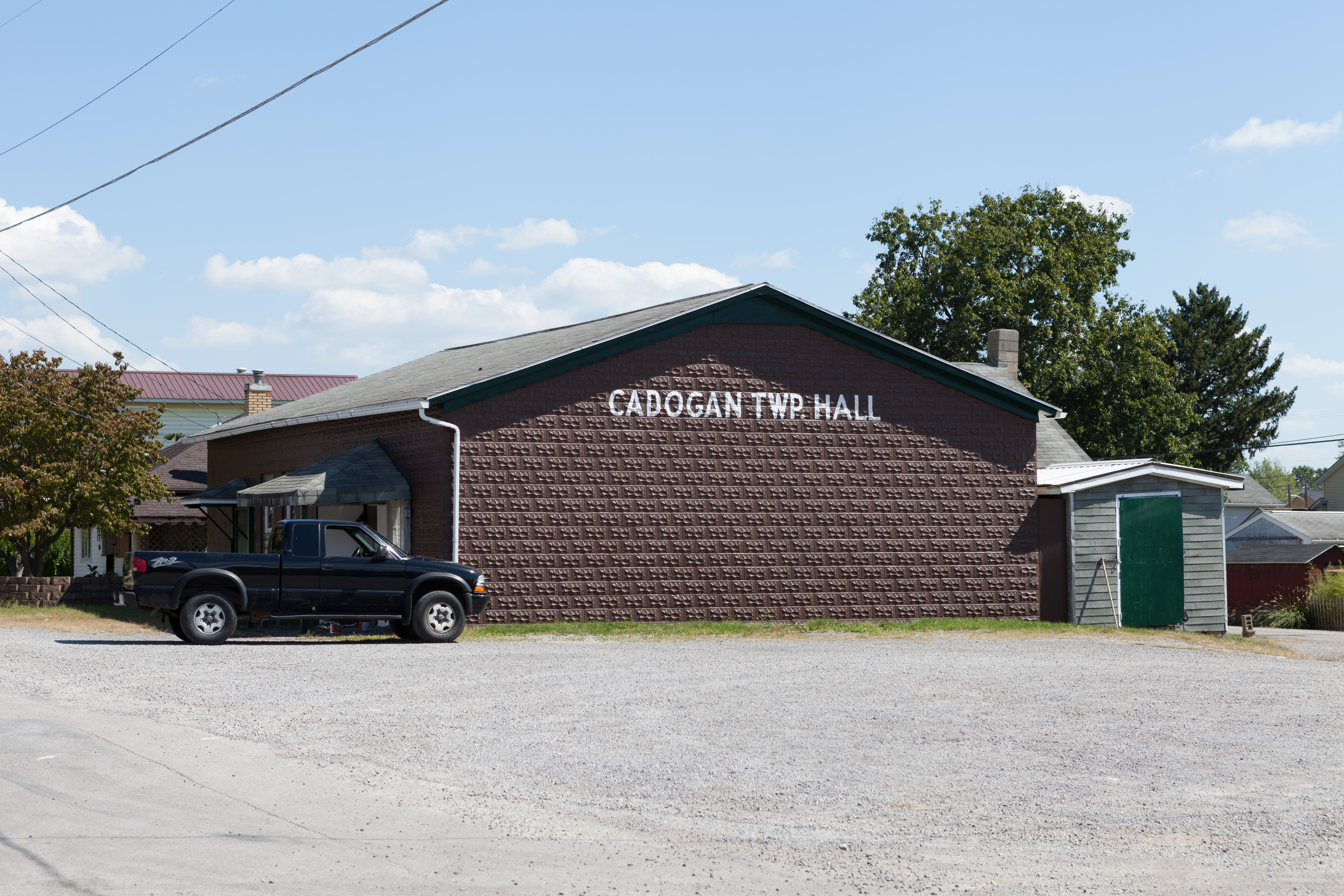 Cadogan Township Hall on Main Street in Cadogan Township, Armstrong County, Pennsylvania.